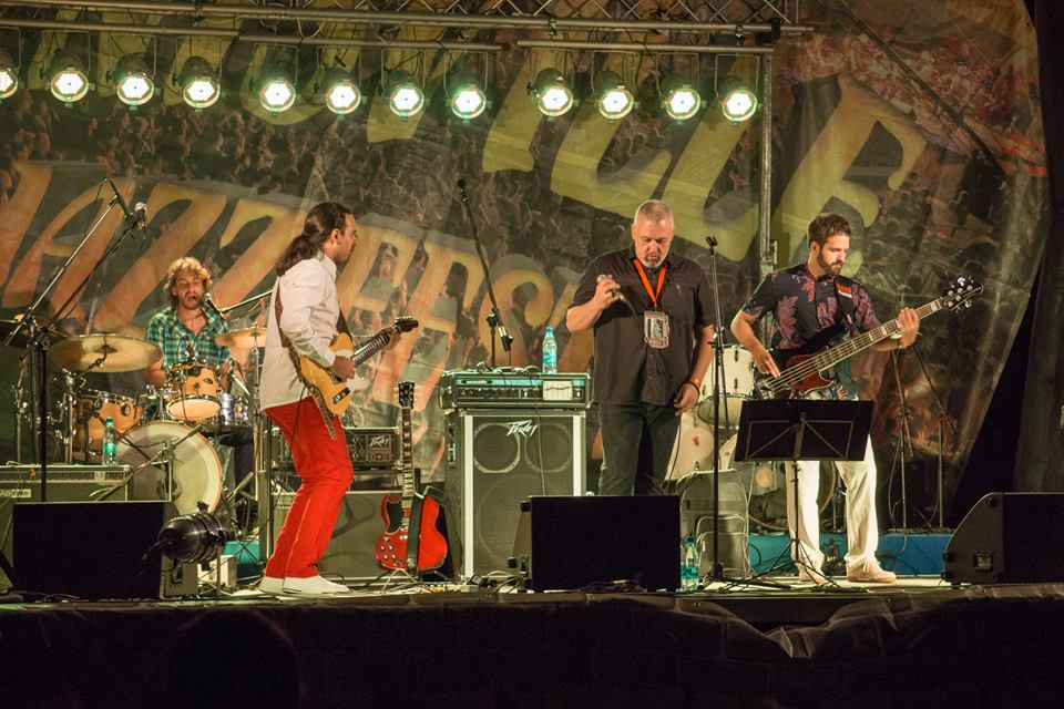 Koncertna fotografija